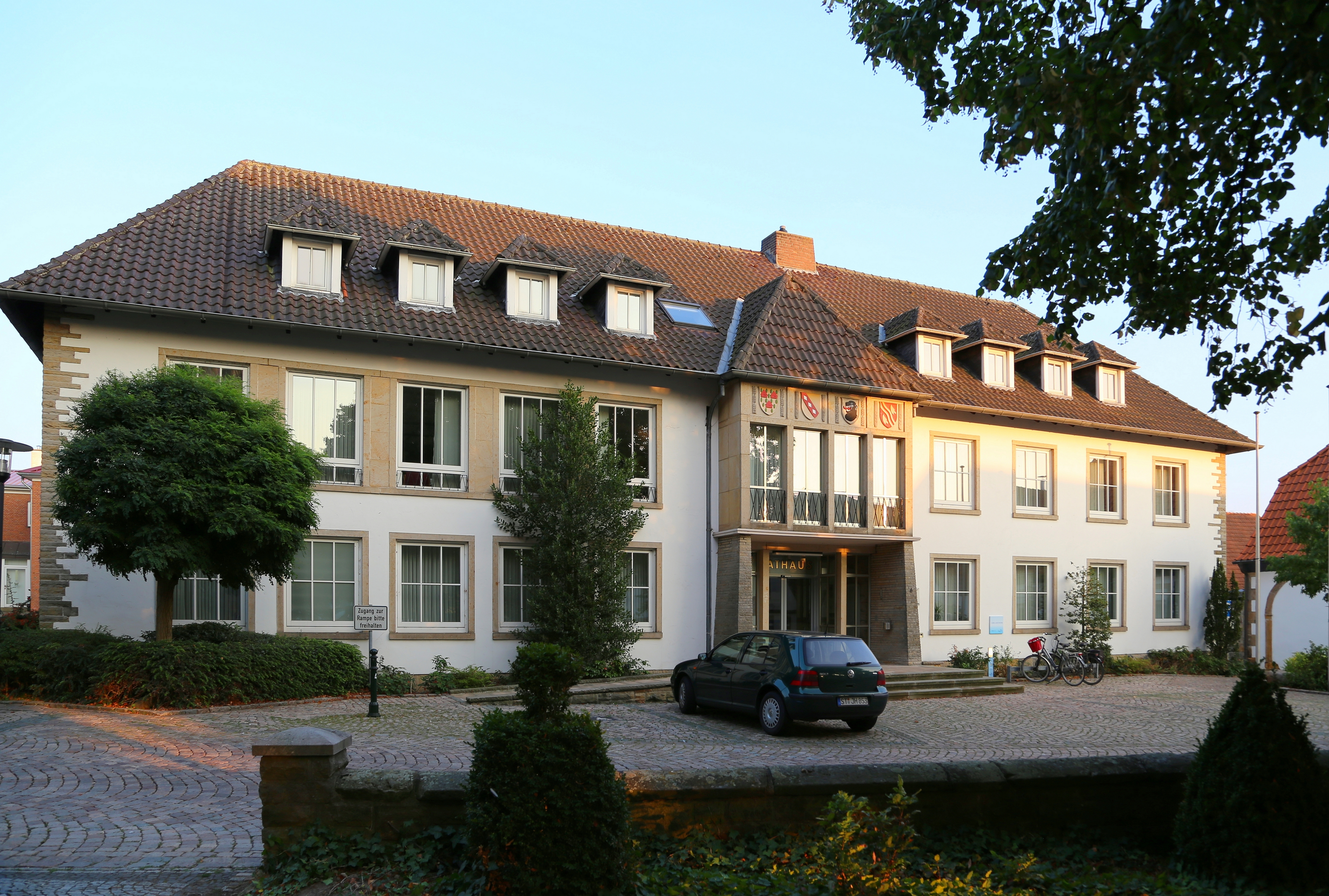 Town hall in Hörstel-Riesenbeck, Kreis Steinfurt, North Rhine-Westphalia, Germany.